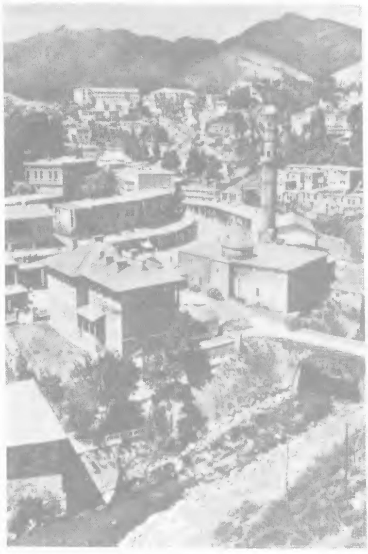 Bakhesh city in beginning XIX century